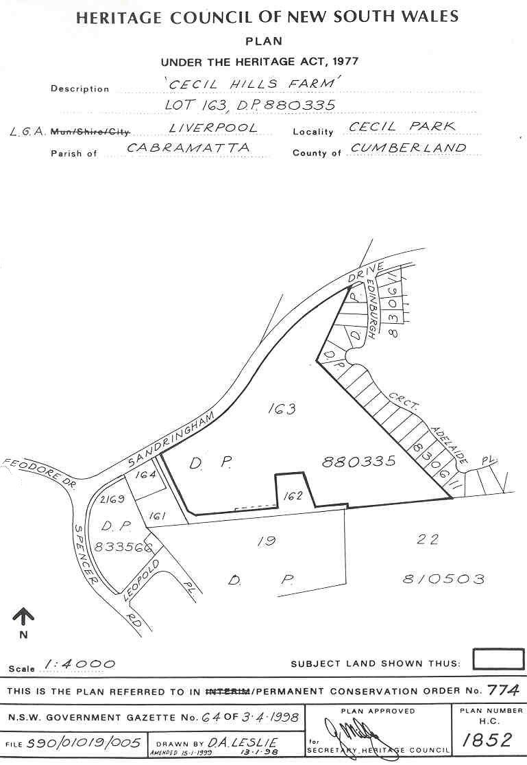 Cecil Hills Farm: PCO Plan Number 774